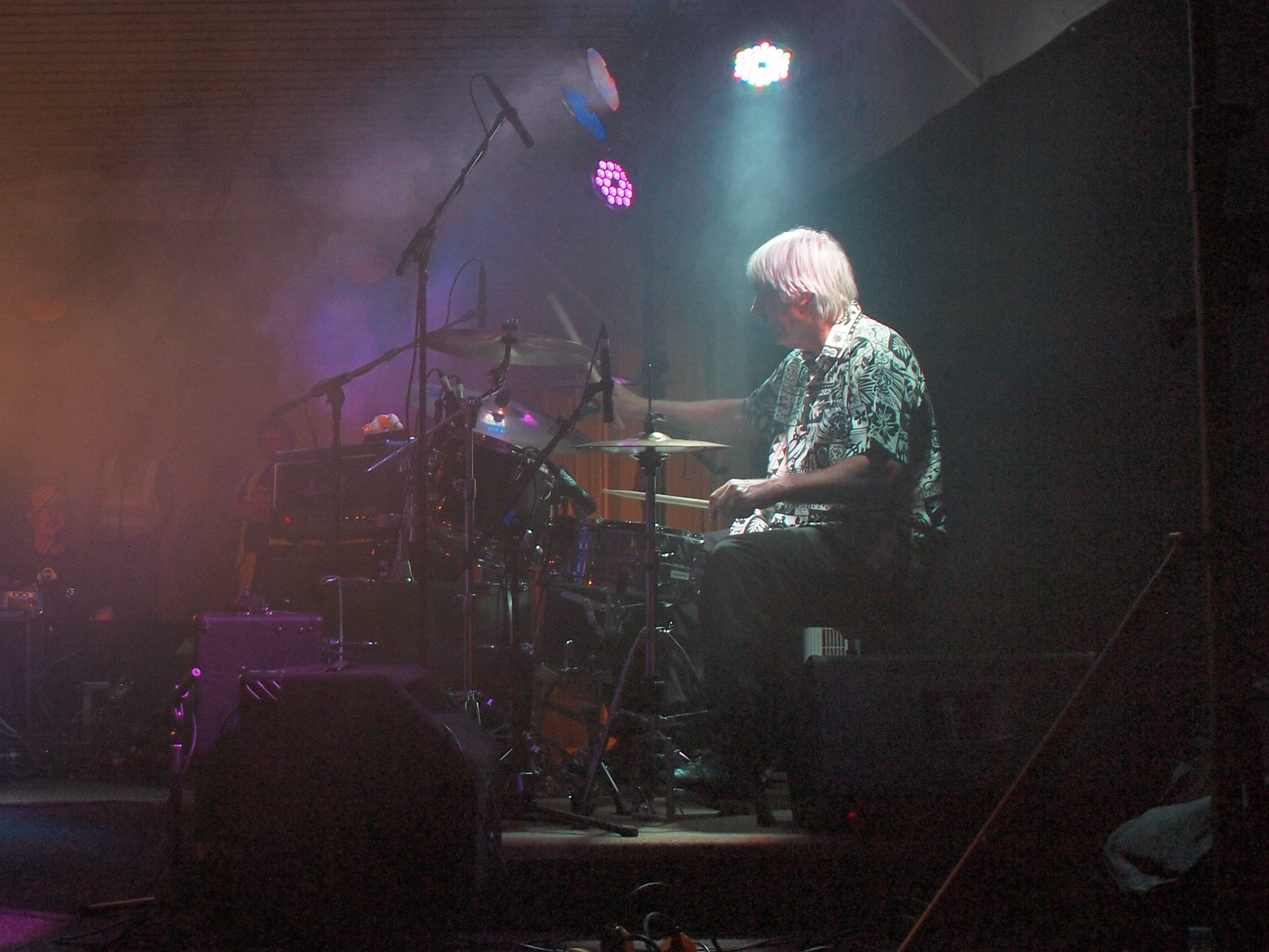 Mick Avory performing with The Swinging Blue Jeans (Alan Lovell, Peter Oakman, Jeff Bannister) at Kisapirtti in Parikkala, Finland July 13th 2013.